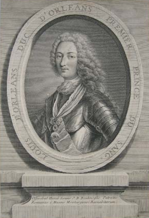 Louis, Duke of Orléans (1703–1752), First Prince of the Blood